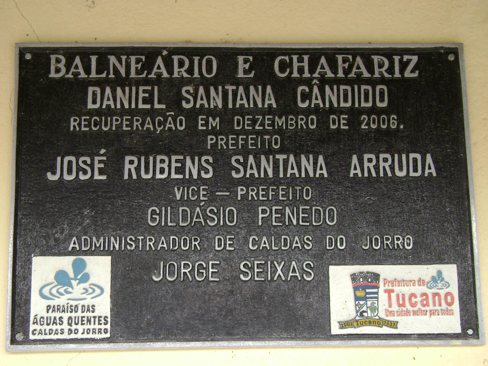 Inscrição em Caldas do Jorro, município de Tucano, Bahia, Brasil.